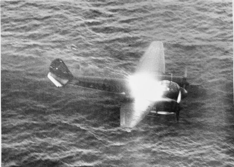 A stricken German Junkers Ju 88A, hit by cannon fire from a De Havilland Mosquito of No. 333 (Norwegian) Squadron RAF, about to crash into the sea off the Norwegian coast, with its starboard elevator collapsed and starboard engine on fire.